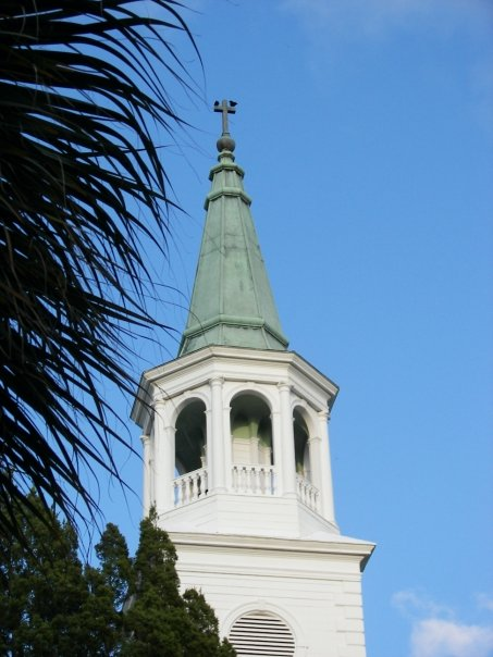 The St. Helena Episcopal Church in Beaufort, South Carolina, United States.